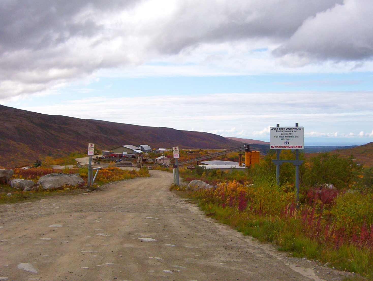 Lucky Shot gold mine, Hatcher Pass, Alaska